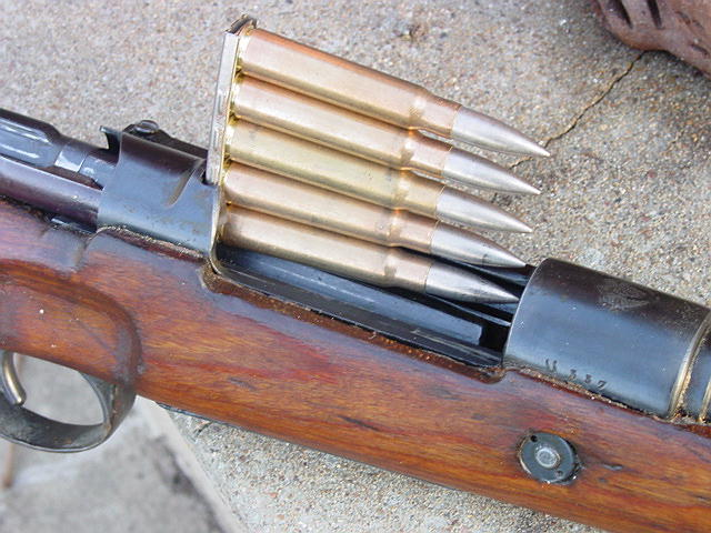 Karabiner 98K stripper clip with 8x57mm Mauser rounds.